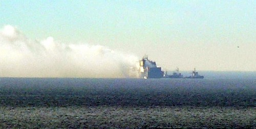 The Turkish ship UND Adriyatik on fire. Photo taken from Fort Punta Christo, near Pula